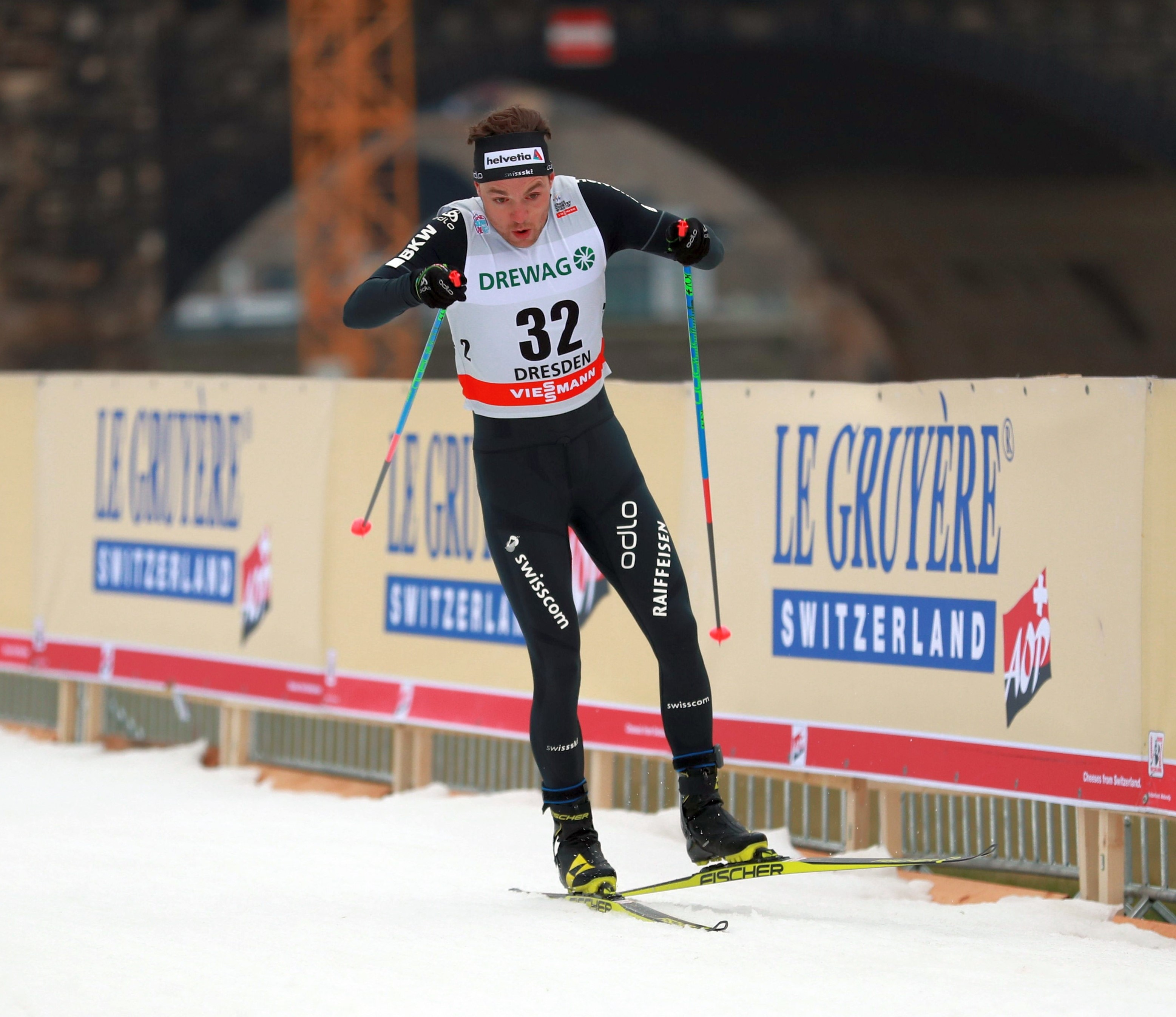 Mens Prolog at the FIS Cross-Country World Cup Dresden 2018: Erwan Käser